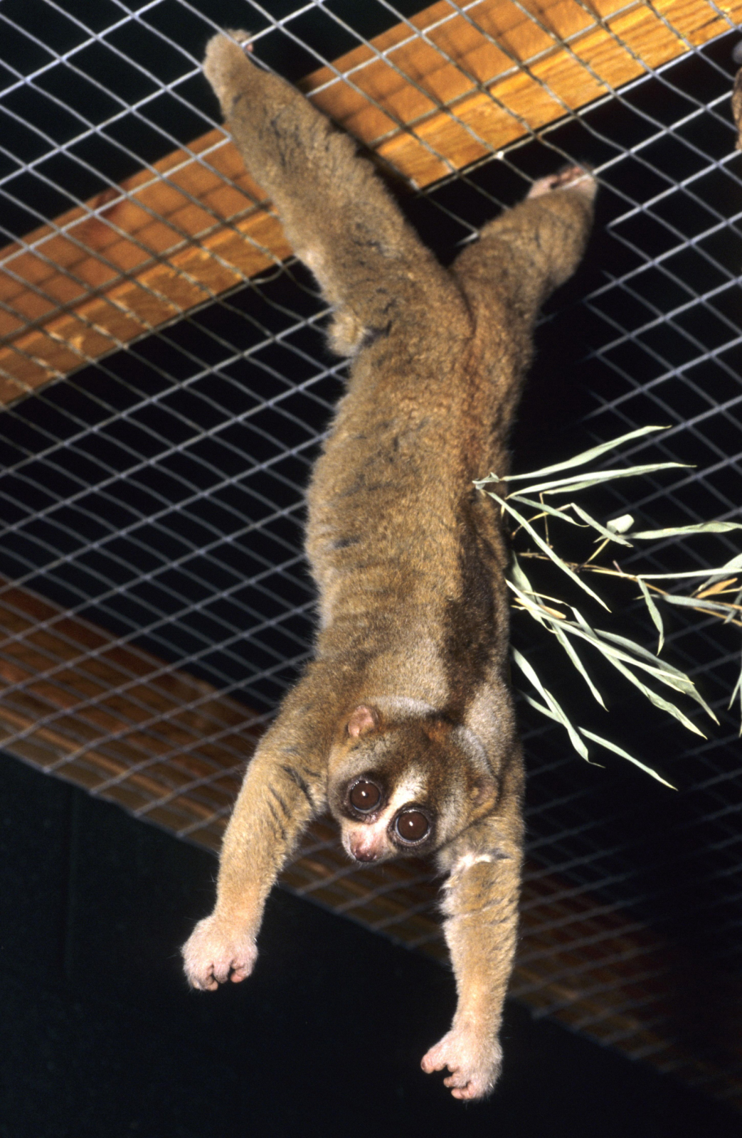 (Sumatran) Nycticebus coucang hanging from the ceiling of a wire cage by its hind legs.